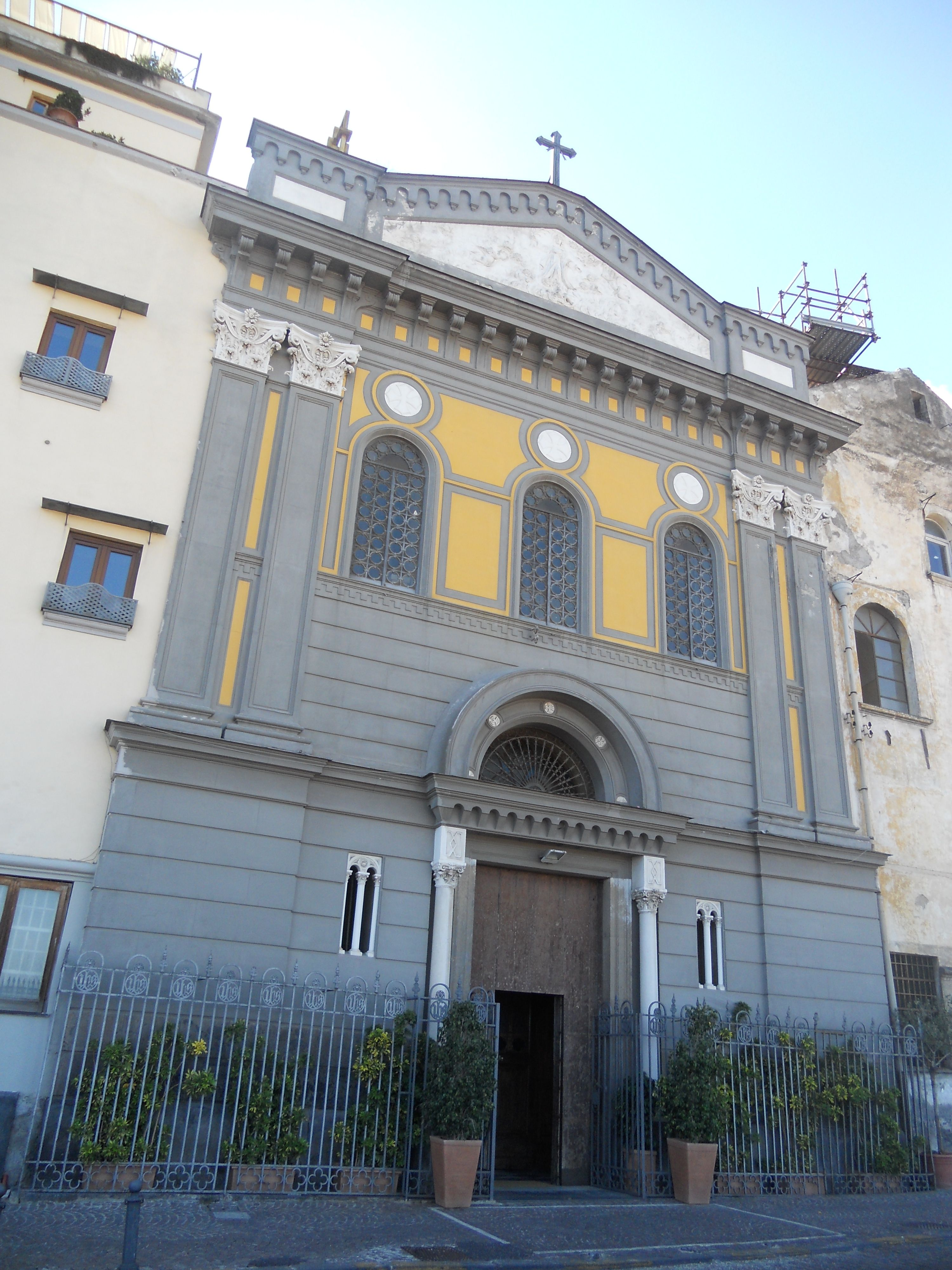 Church of Santa Lucia al Monte (Naples)